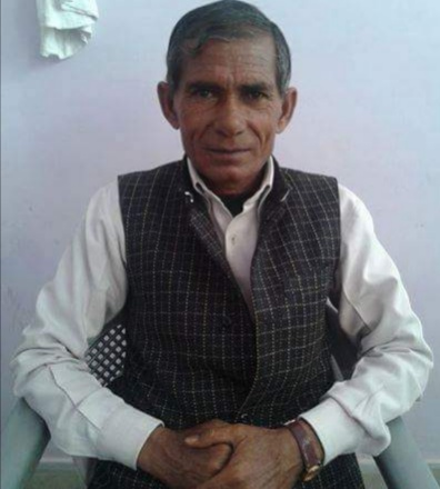 Pema Ram (पेमा राम) S/O Chiranji Lal Birth Place-Mundwara, Dhod,Sikar,Rajasthan. Age-61 yrs Profession - Farmer,Politician, ex-MLA Education - PG(Poli. Sc.)